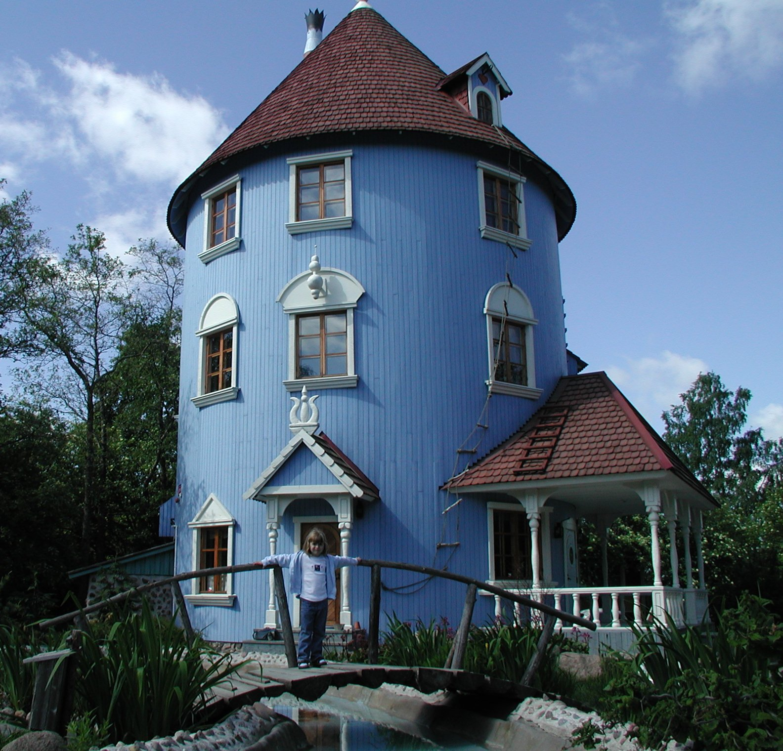 Moomin's haus in Muumimaailma (Moominsland) in Naantali, Finland